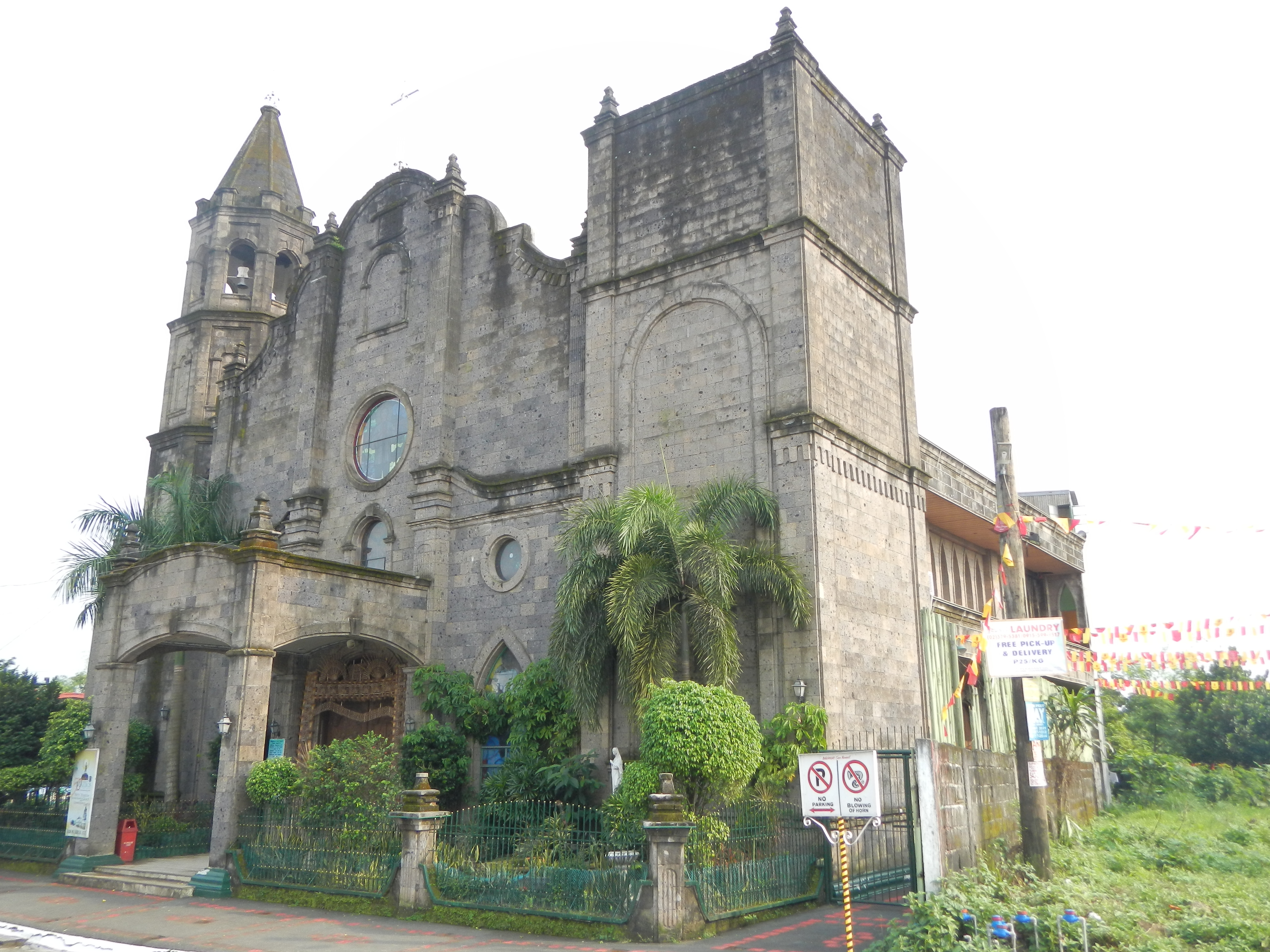 San Lorenzo Ruiz de Manila Parish Church Pleasant Hills, Barangay San Manuel[1]City of San Jose del Monte (CSJDM)[2][3] [4]